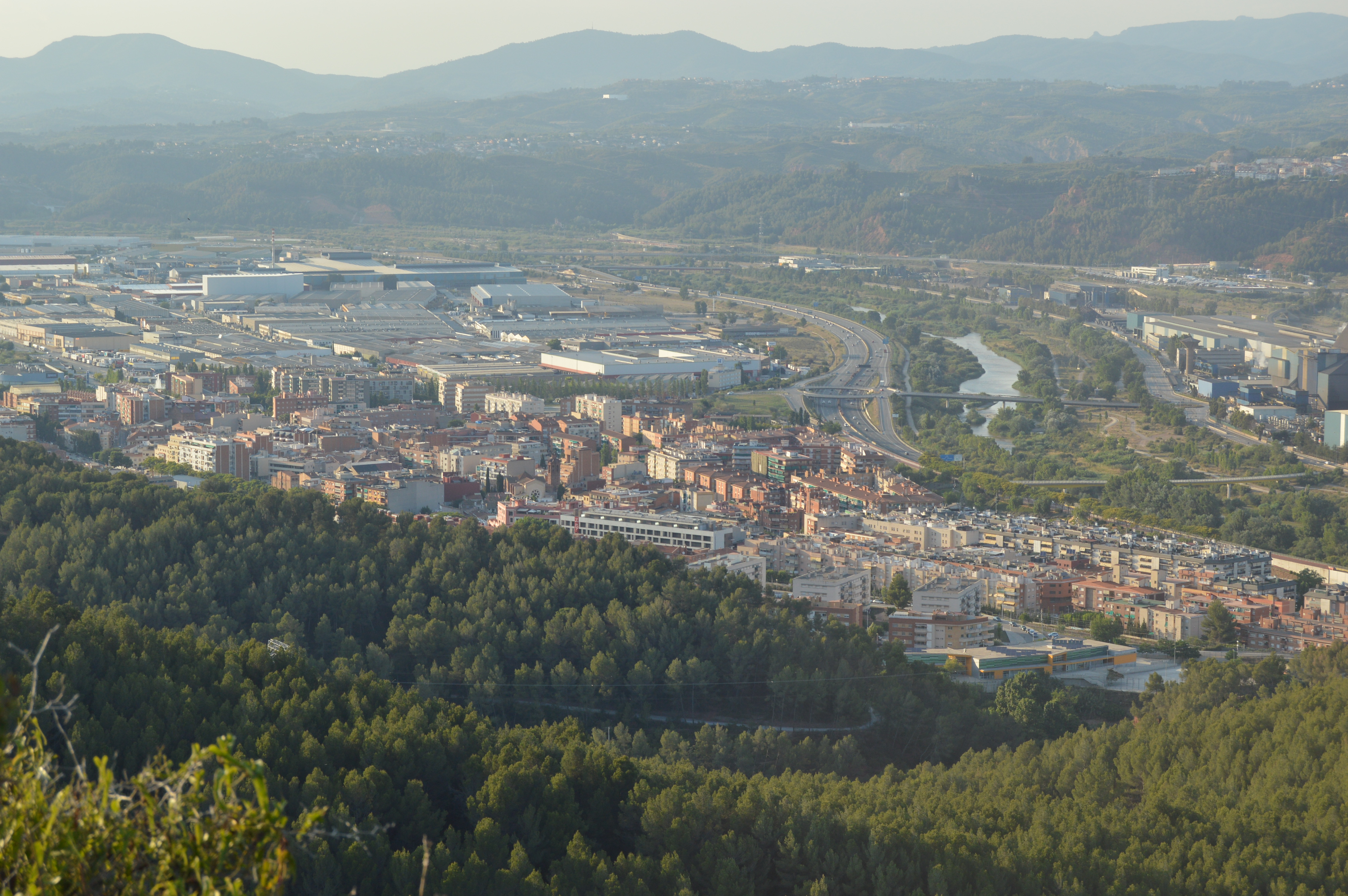 Sant Andreu de la Barca vista